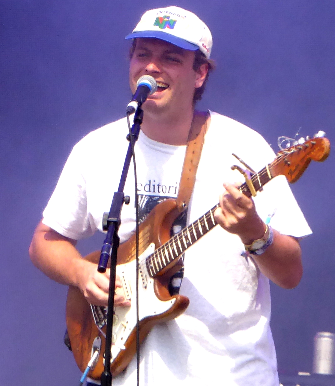 Glastonbury 2019